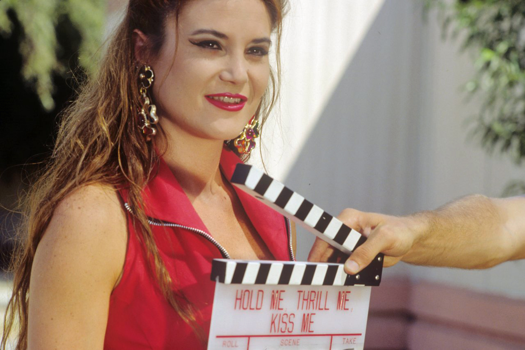 Andrea Naschak as Sabra in Hold Me, Thrill Me, Kiss Me